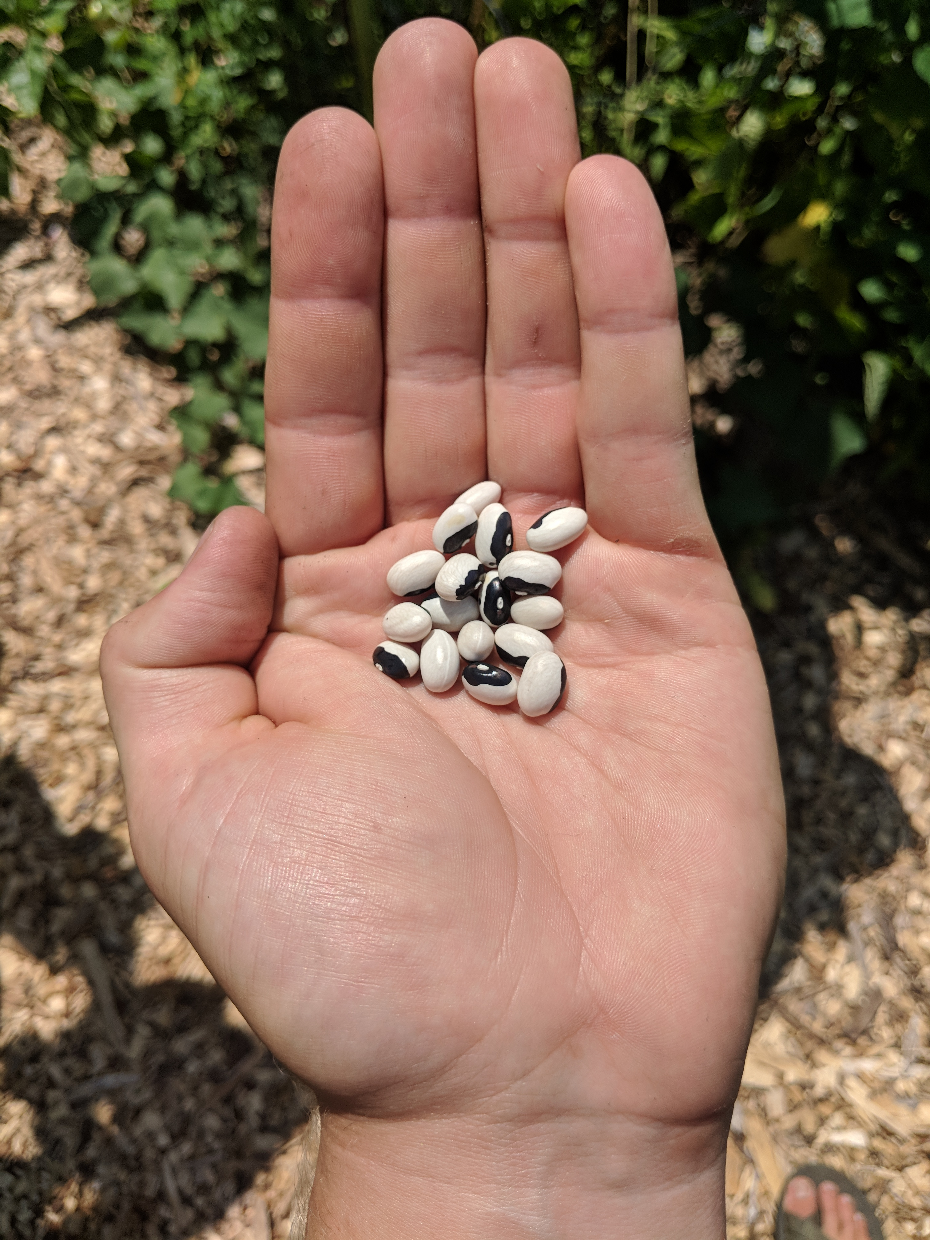 Gardener Holding Heirloom Calypso Beans (aka Yin Yang)